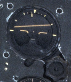 Artificial horizon from a Consolidated B-24 Liberator, cropped from File:Consolidated B-24 cockpit USAF.jpg